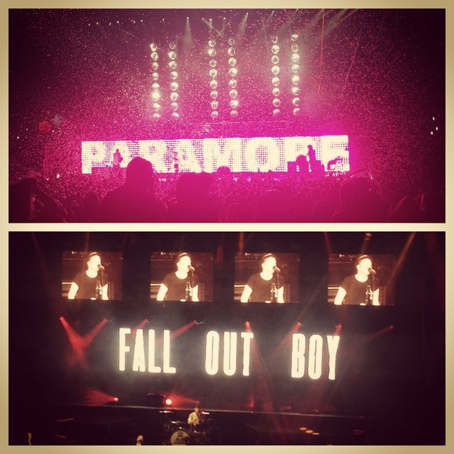 American pop punk bands Paramore and Fall Out Boy performing during the "Monumentour" in summer 2014